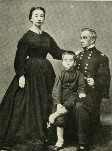 Major Robert Anderson with family